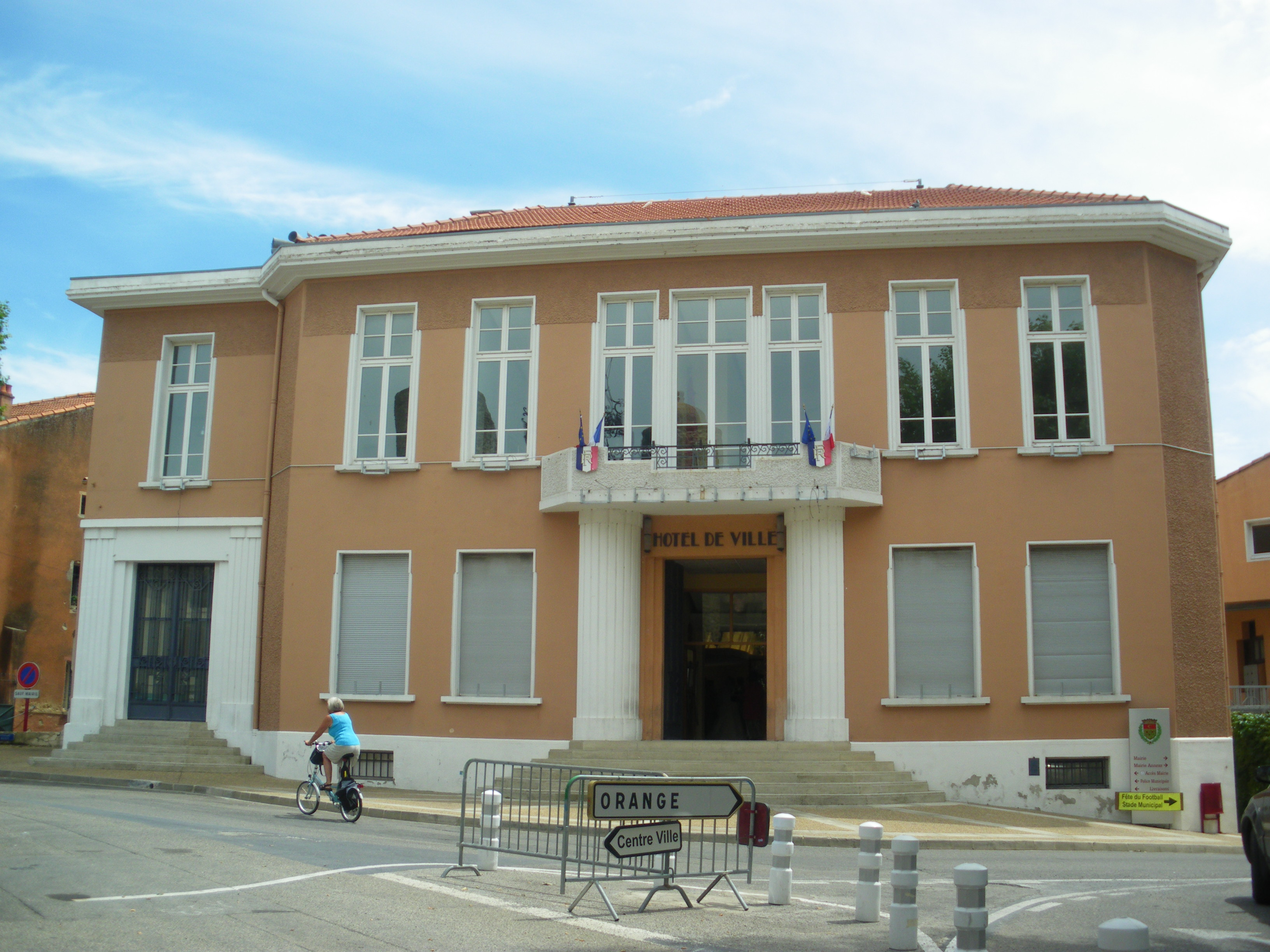 Town hall of Camaret, Vaucluse